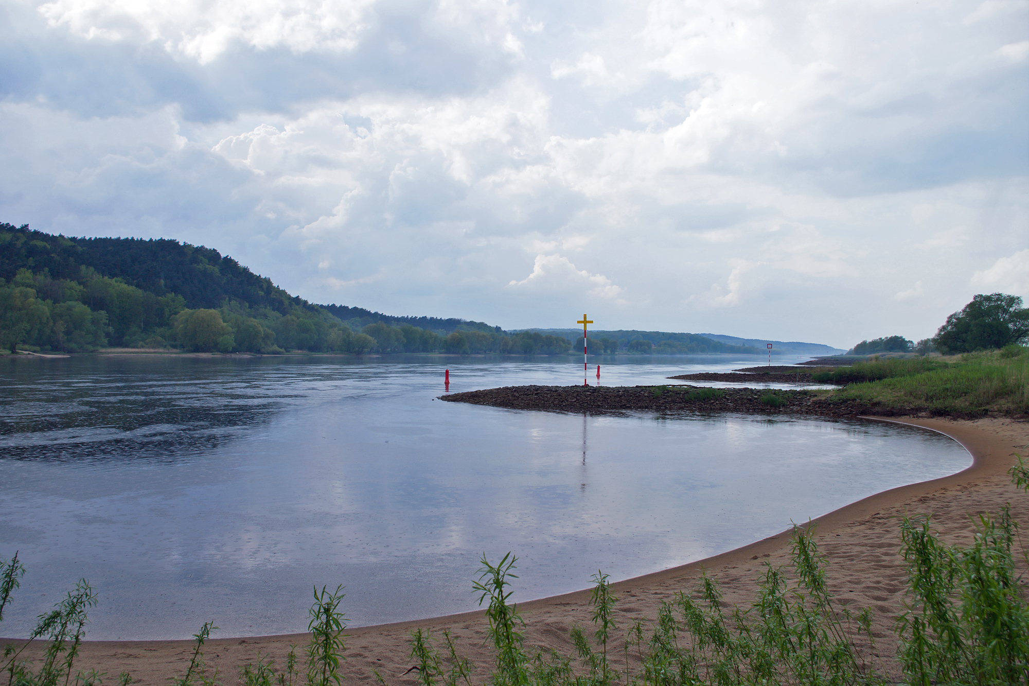 Thunderstorm/rain mood at the Elbe river in Lower Saxony (~ German river KM 529). Right/front the banks of Amt Neuhaus (Lüneburg district), left/background Lüchow-Dannenberg with hills of the Drawehn-ridge ("Elbhöhen", here: the "Kniepenberg"), which ends abruptly at the Elbe river valley.